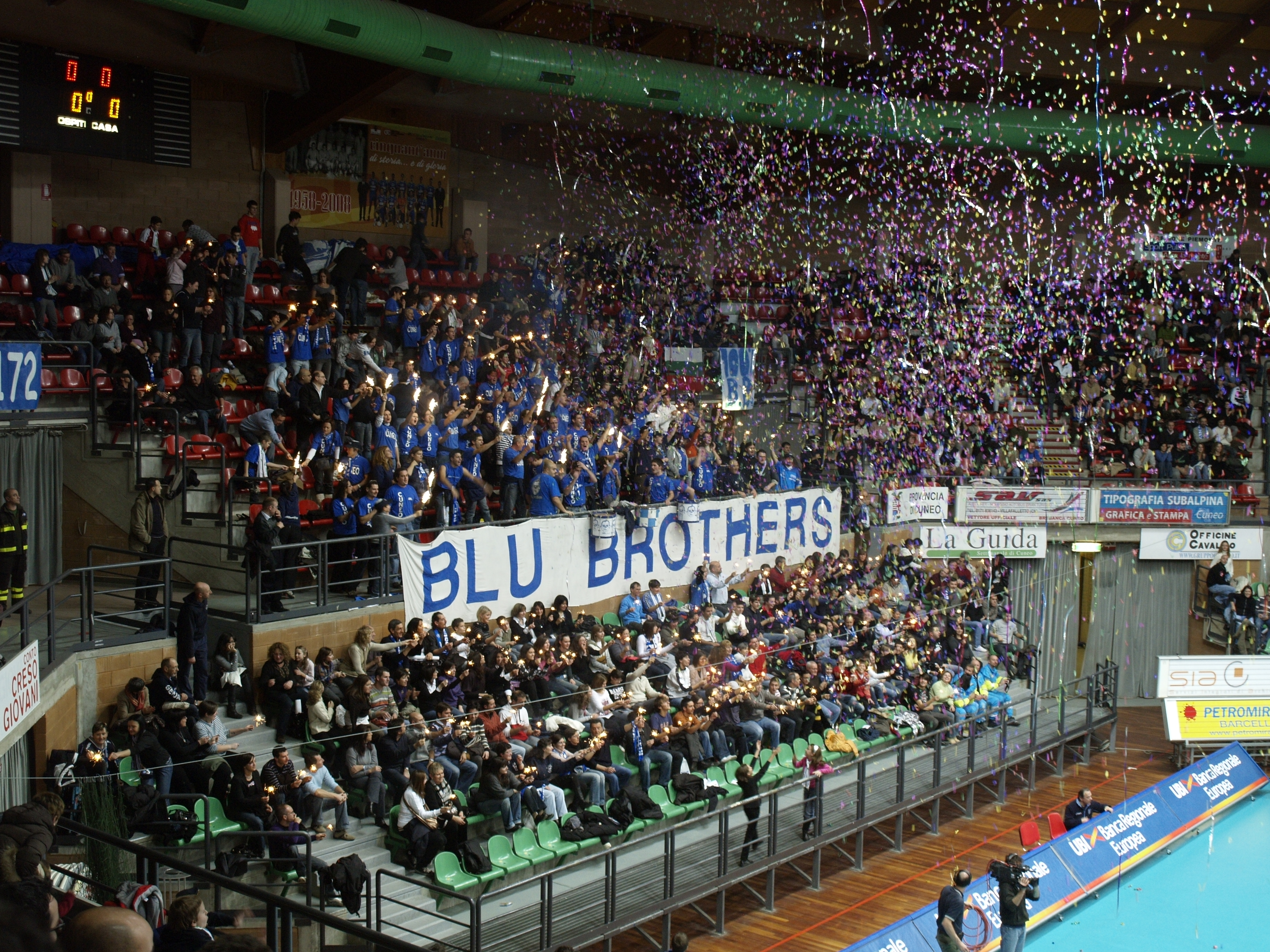 The Blu Brothers, ultras of the Cuneo's Volleyball Team